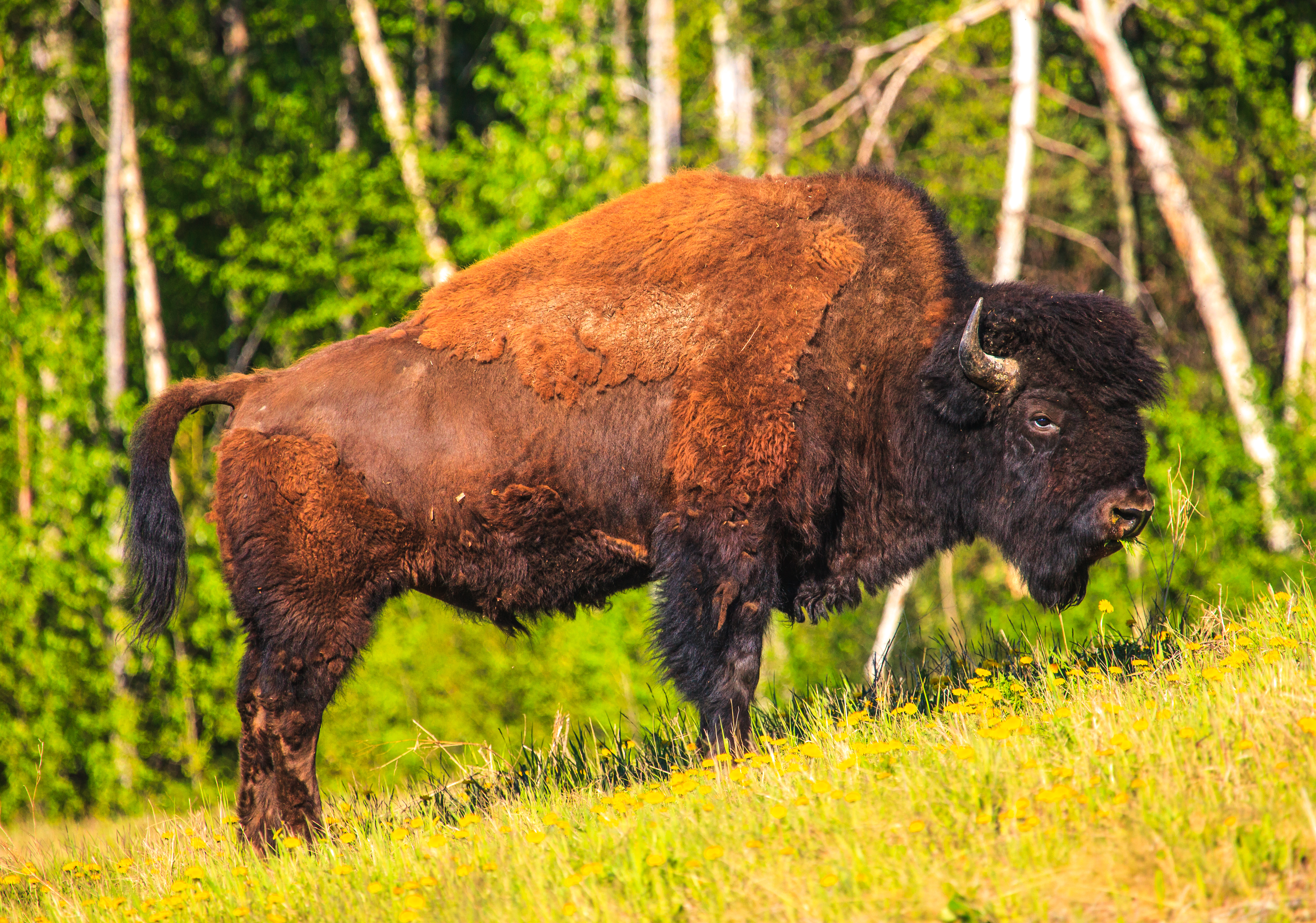 Hwy 97 Liard to Watson Lake...Buffalo